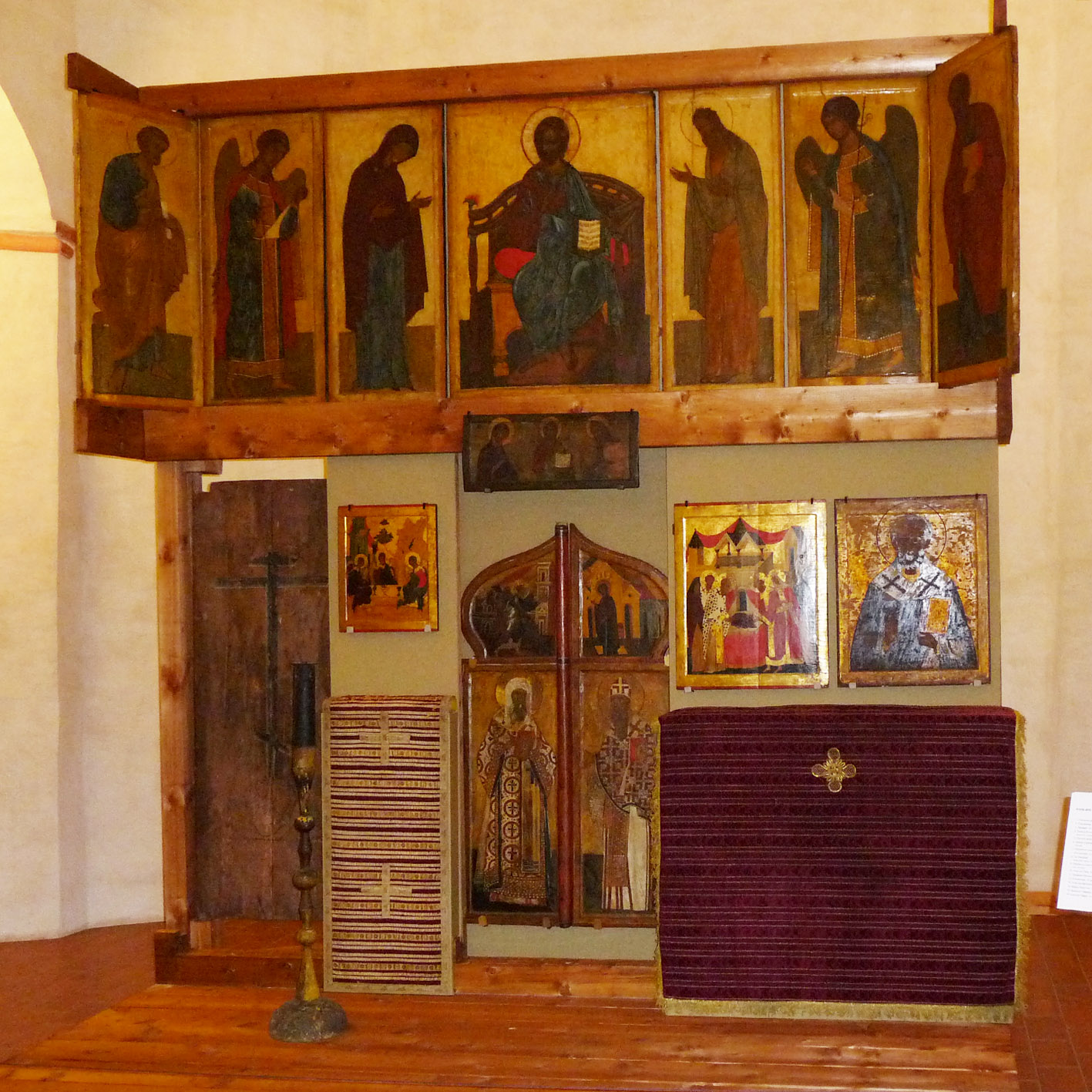 Icons of the Church of the Deposition of the Robe in the Kirillo-Belozersky Museum. 1485 and later. Vologodskaya oblast. Russia.